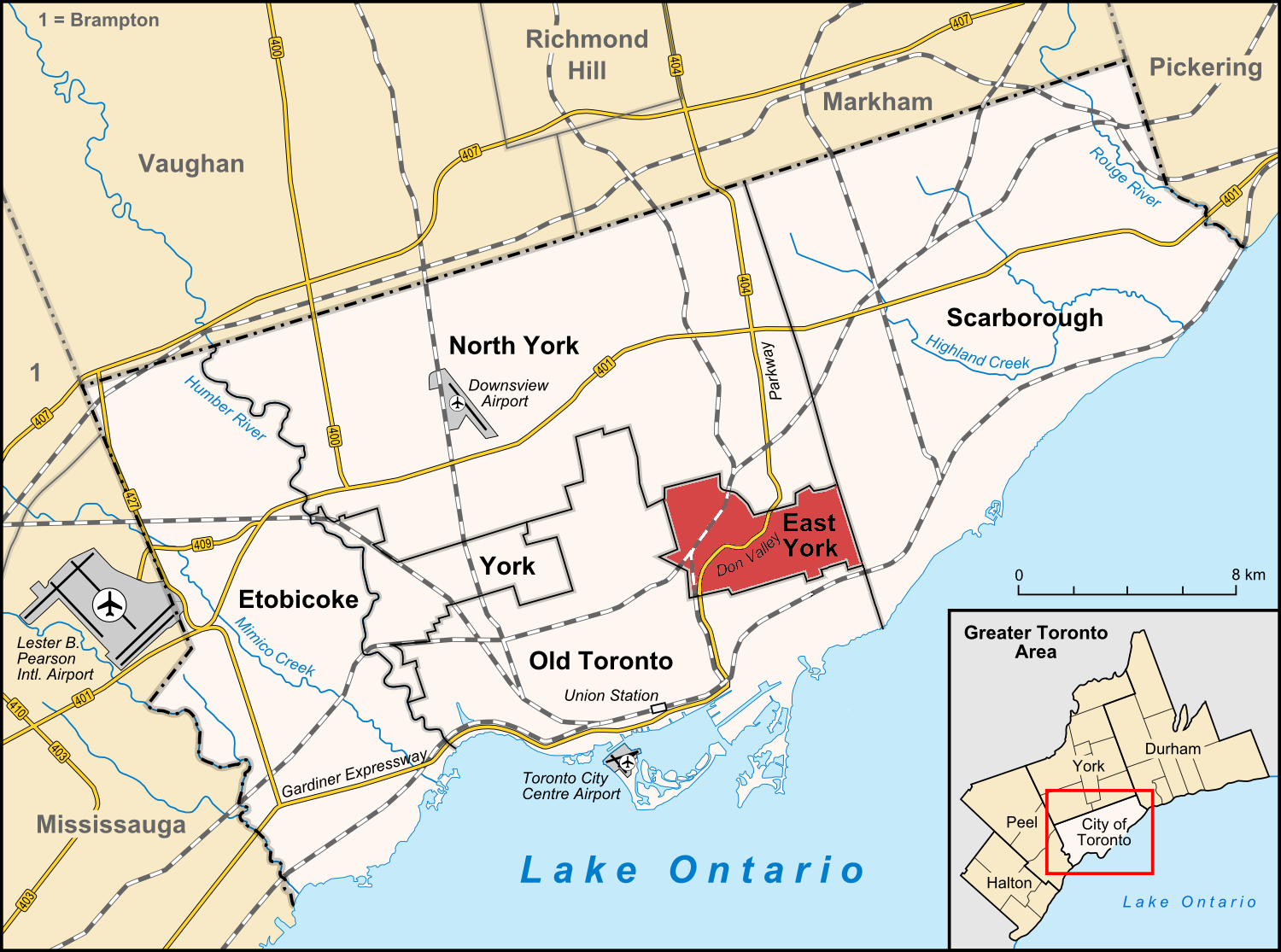 Map of Toronto